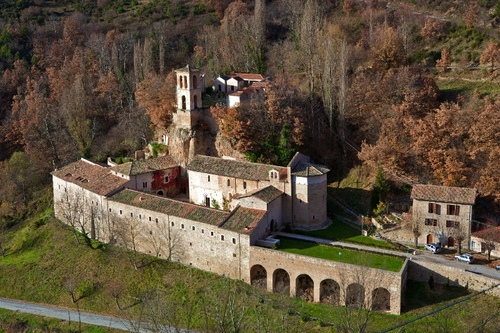 Sant'Eutizio Abbey